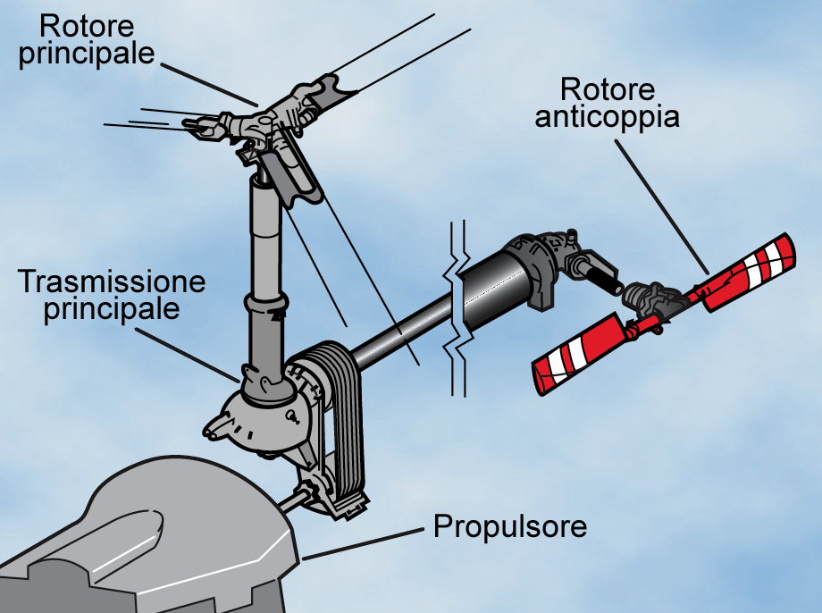 Helicopter rotor drive system, Italian nouns. FAA - H808321